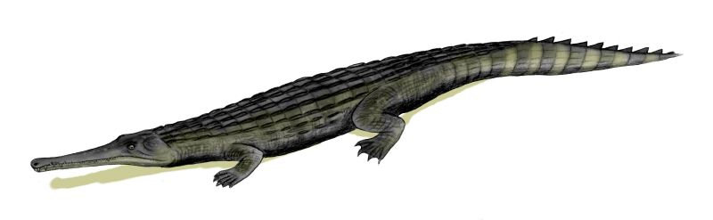 Dyrosaurus phosphaticus, a crocodilian from the Early Eocene of North Africa, pencil drawing, digital coloring